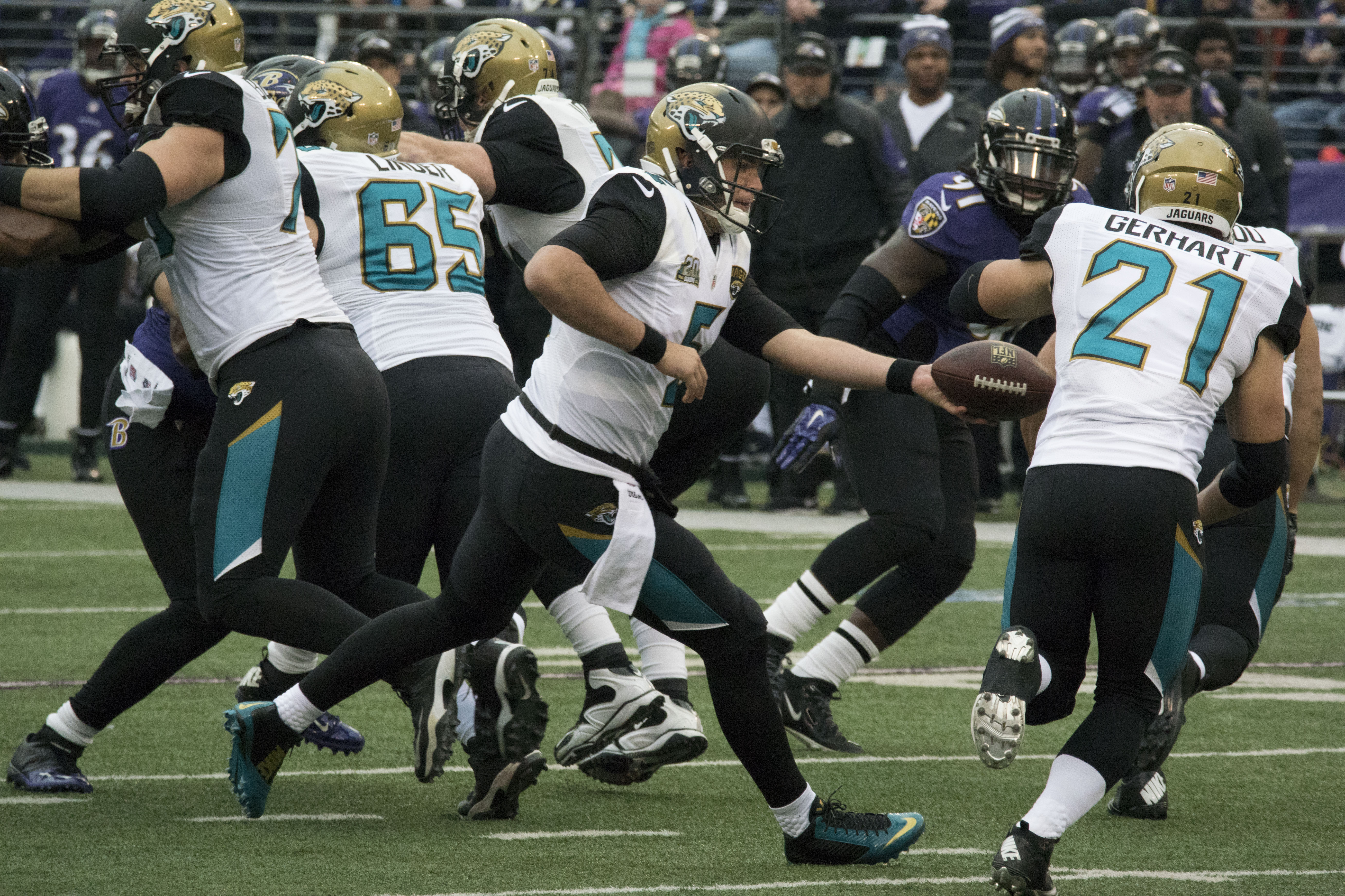 Jaguars at Ravens 12/14/14